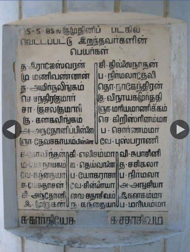 Kumuthini boat massacre memorial in Jaffna, Sri Lanka